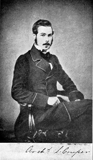 Scan of a picture of Scottish scientist Archibald Scott Couper (who died in 1892)